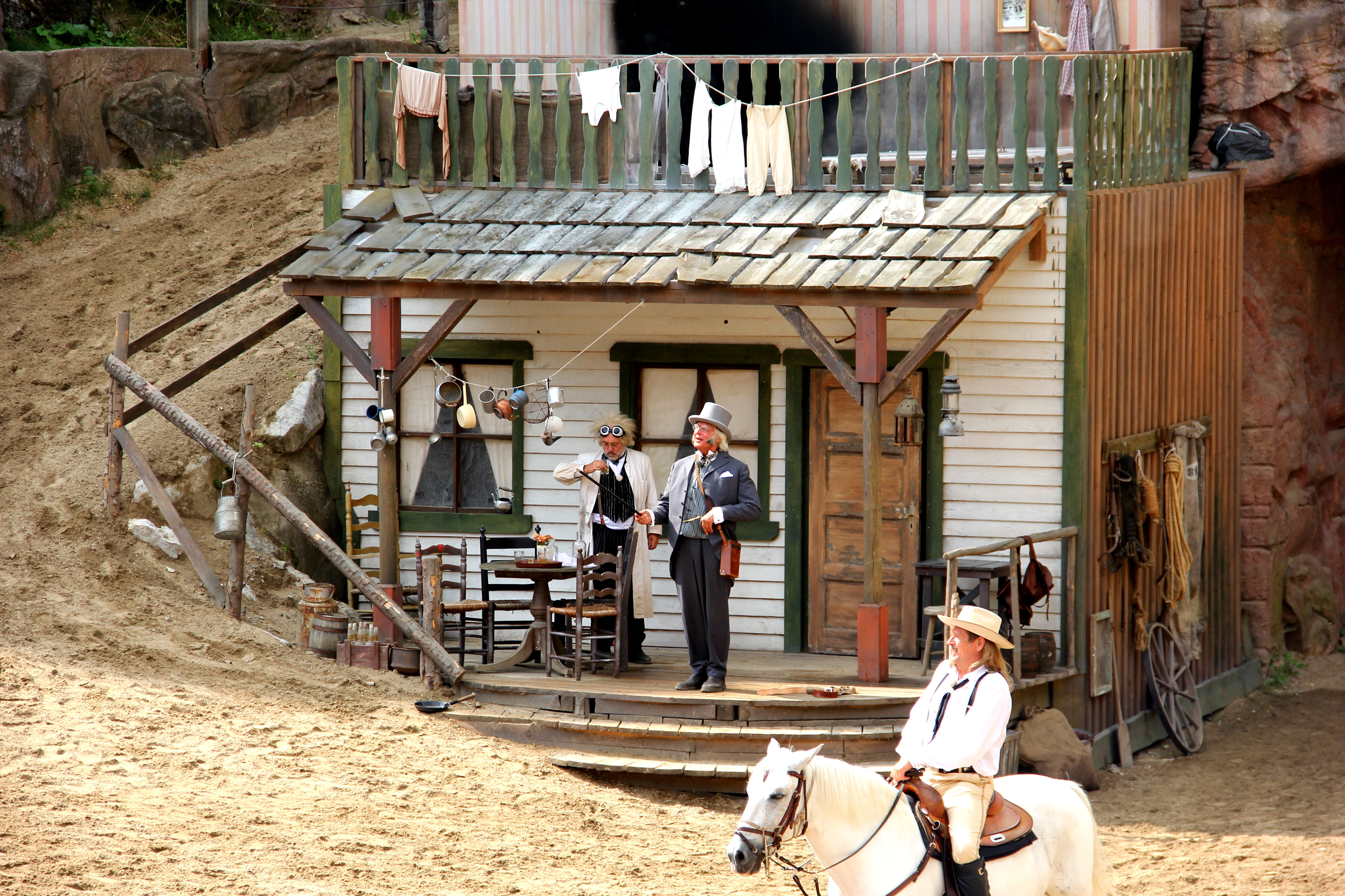 Joshy Peters (right) as Buffalo Bill, Uwe Karpa (left) as Professor Hieronimus Zacharias Schmalfuss und Harald P. Wieczorek (middle) as John Helmers